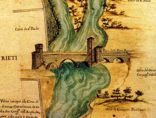 The ancient roman bridge of Rieti in an ancient map of Velino river